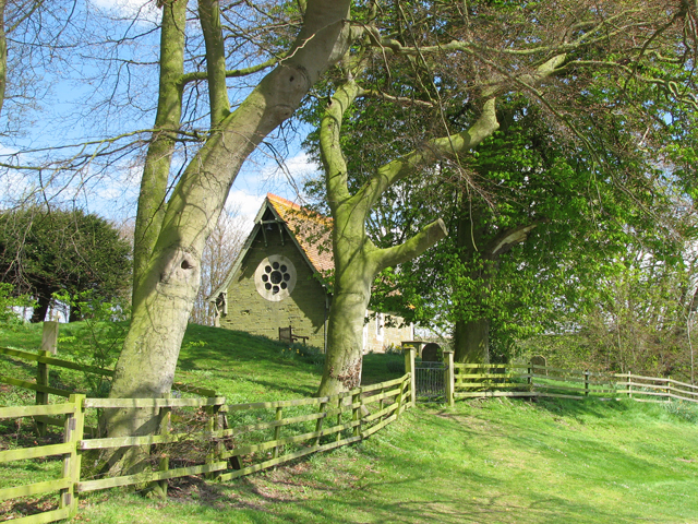 Saint Olaves Church, Ruckland. Lincolnshire's Smallest Church.